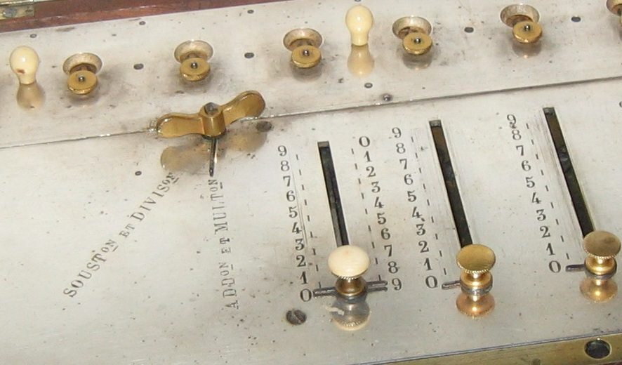 Detail of a pre 1851 Arithmometer's carriage showing the multiplier cursor